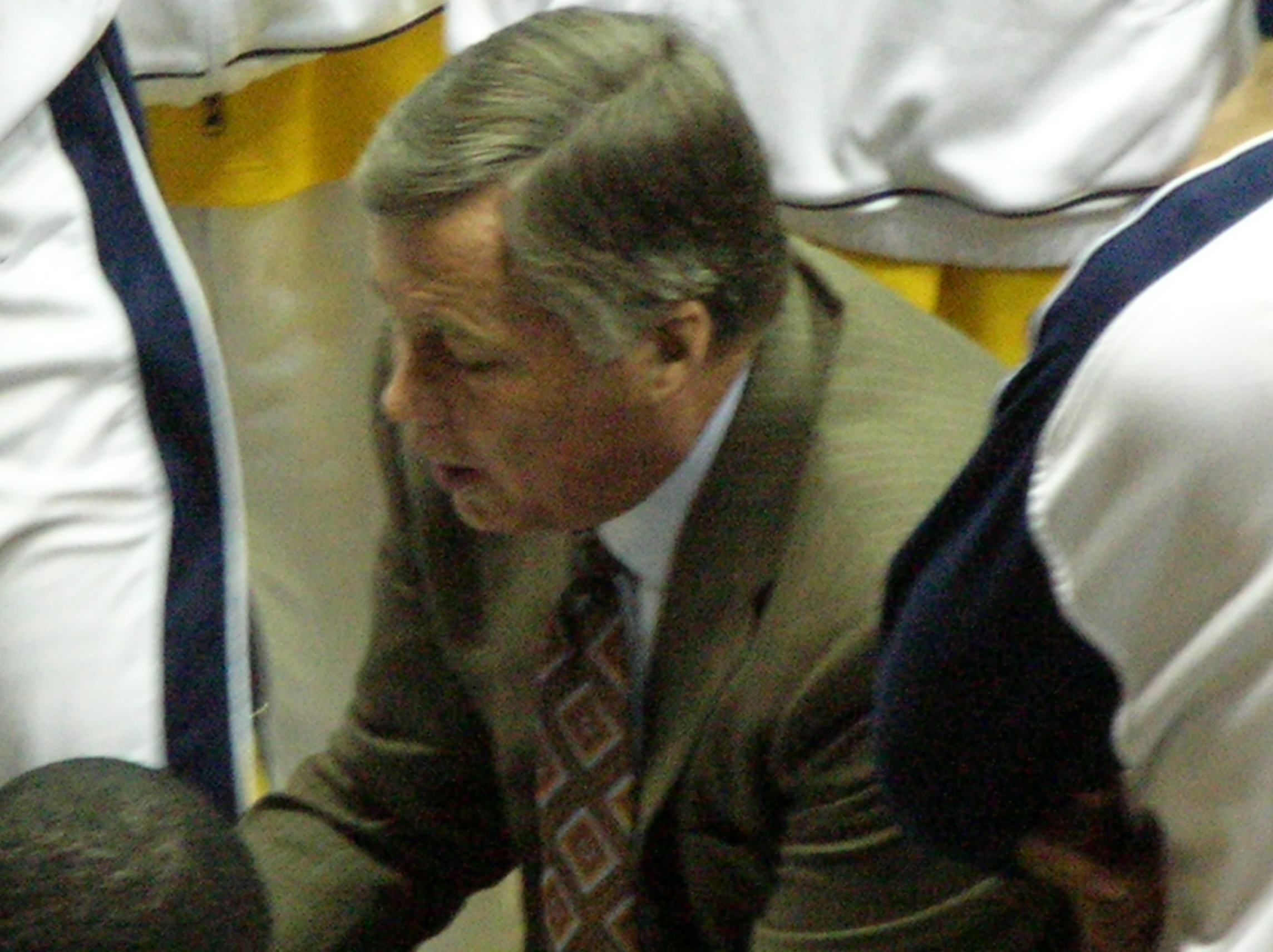 California Golden Bears men's head basketball coach Mike Montgomery in a huddle with the team during the 2008 Golden Bear Classic championship game between the California Golden Bears and the Portland Pilots at Haas Pavilion. The Golden Bears won 81-61.